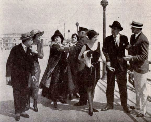 Still from the American comedy drama film Please Help Emily (1917) with Ann Murdock, on page 25 of the November 24, 1917 Exhibitors Herald.